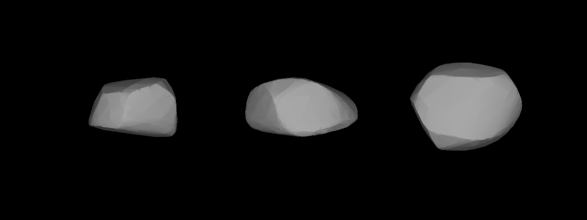 A three-dimensional model of 264 Libussa that was computed using light curve inversion techniques.